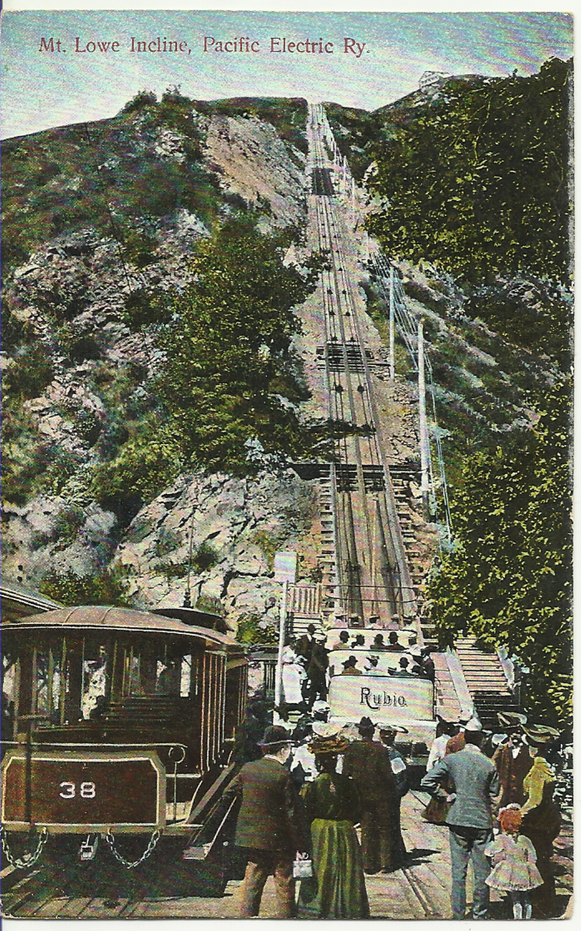 Mt. Lowe Incline, Pacific Electric Railway